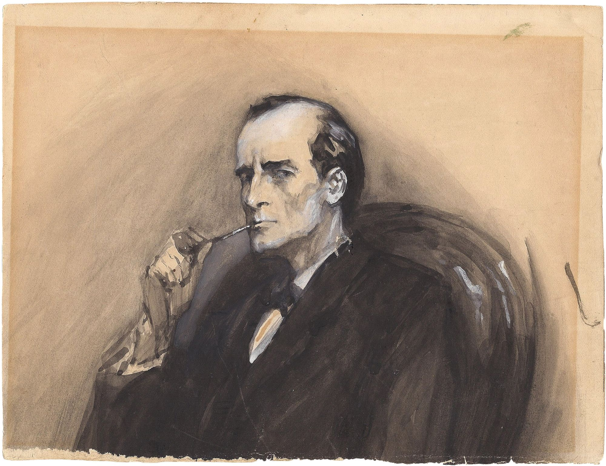 Portrait of Sherlock Holmes by Sidney Paget. Original drawing, ink and wash (6” X 8”).